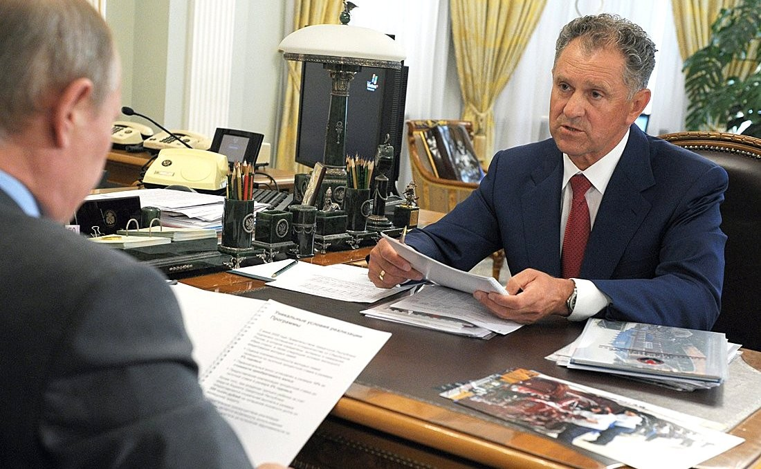 Head of Udmurtia Alexander Volkov at a working meeting with President of Russia Vladimir Putin.